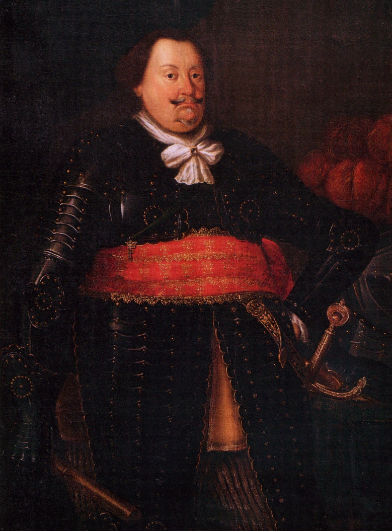 Portrait of George of Brunswick-Lüneburg (1582-1641)